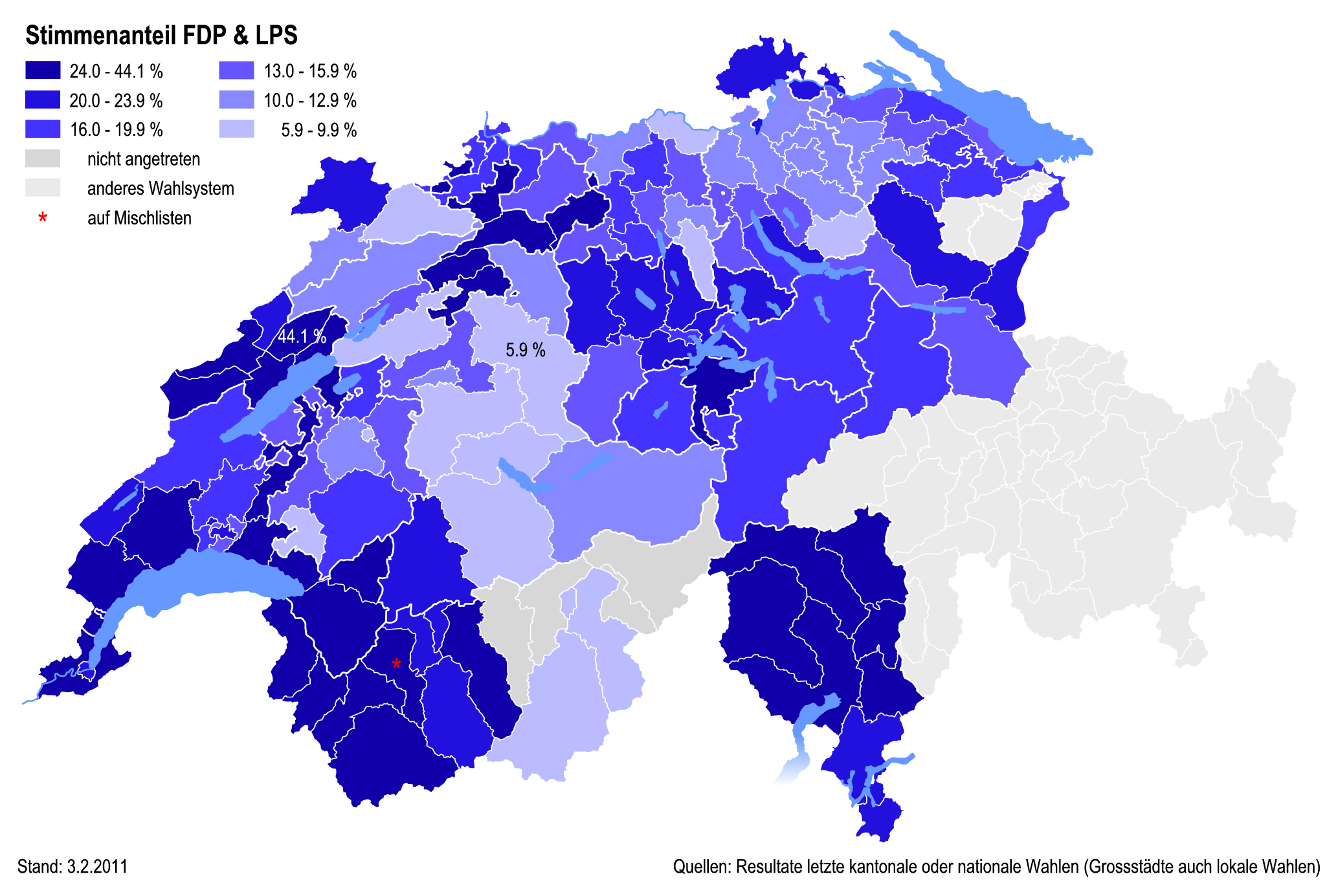 Geographical overview on the votes share of the FDP.The Liberals in the districts.